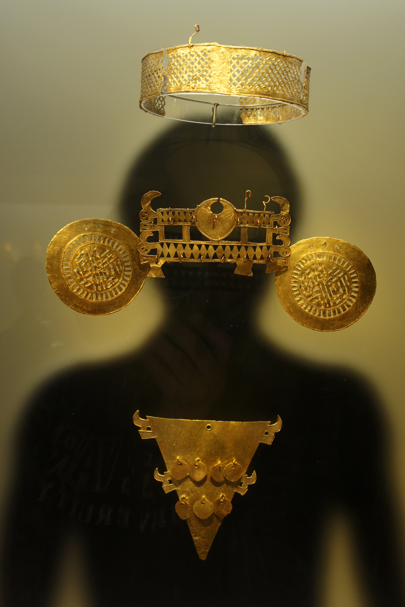 Gold Museum, Bogotá, Colombia